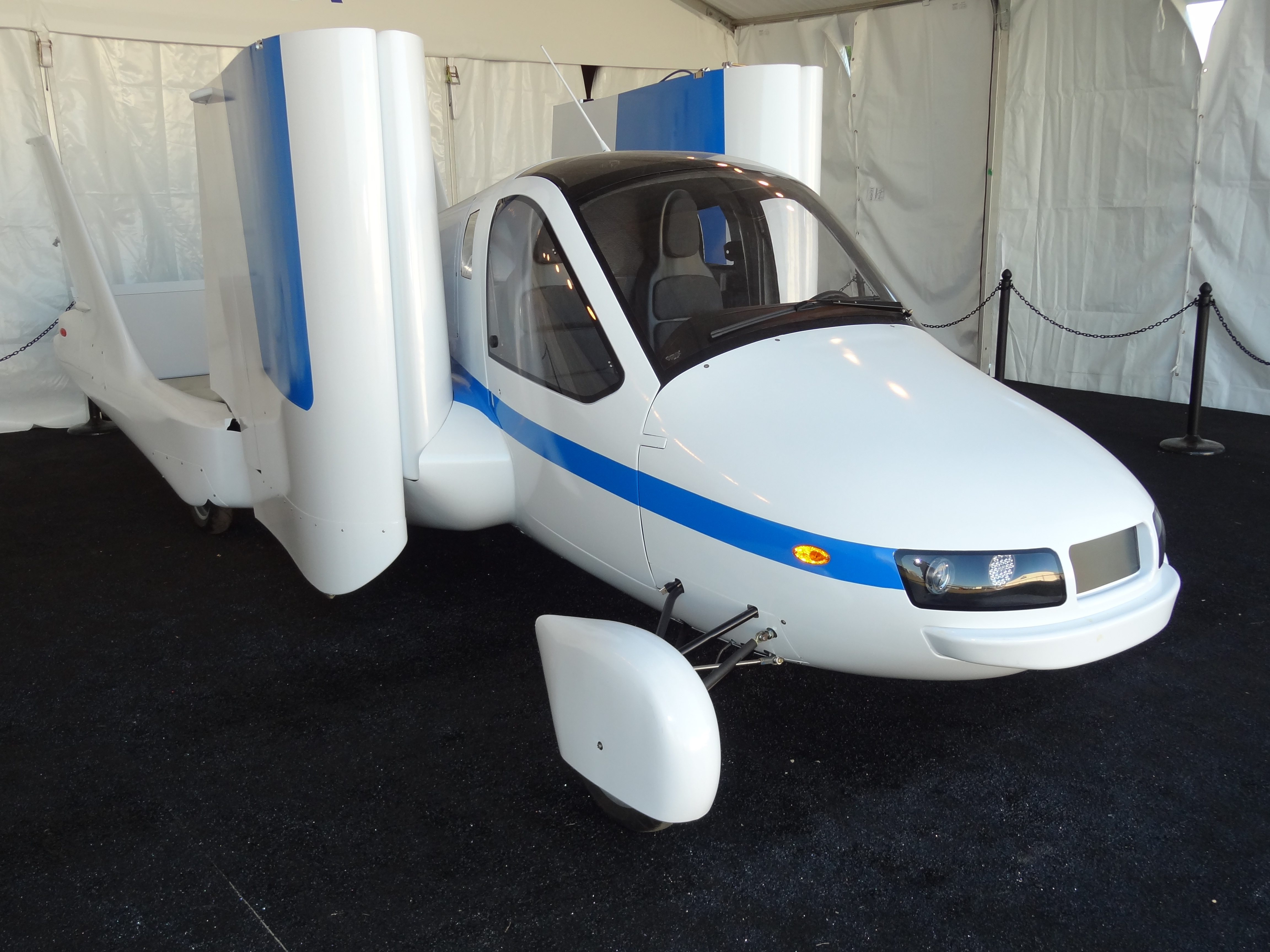 Terrafugia Transtion Production Prototype on display at Oshkosh July 2011. The Production Prototype no longer includes a canard because it was found to have an adverse aerodynamic interaction with the front wheel suspension struts and the NHTSA had categorized the Transition as an multipurpose passenger vehicle which removed the requirement for a full width bumper that had inspired the original canard design.[1] ↑ Fast Lane to Sky High, Ansys Fluid flow simulation software co-pilots design of production prototype roadable aircrft by Gregor Cadman, Engineer, Terrafugia, Woburn, MA, USA